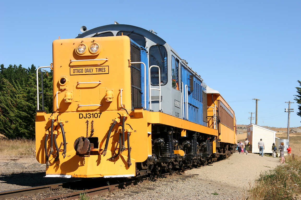 DJ3107 at Pukerangi Station on Taieri Gorge Railway